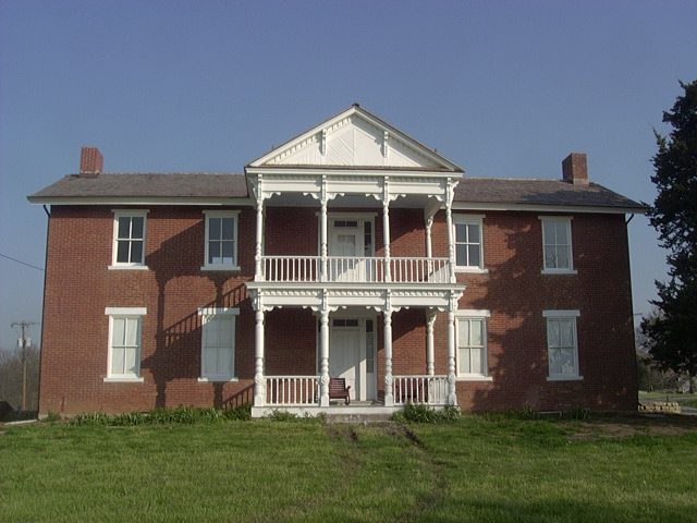 1857 Moses Grinter House. Photo by J. D. Redding, April 2007.